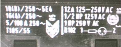 Marking of Electrical Rating on a Special Use Switch